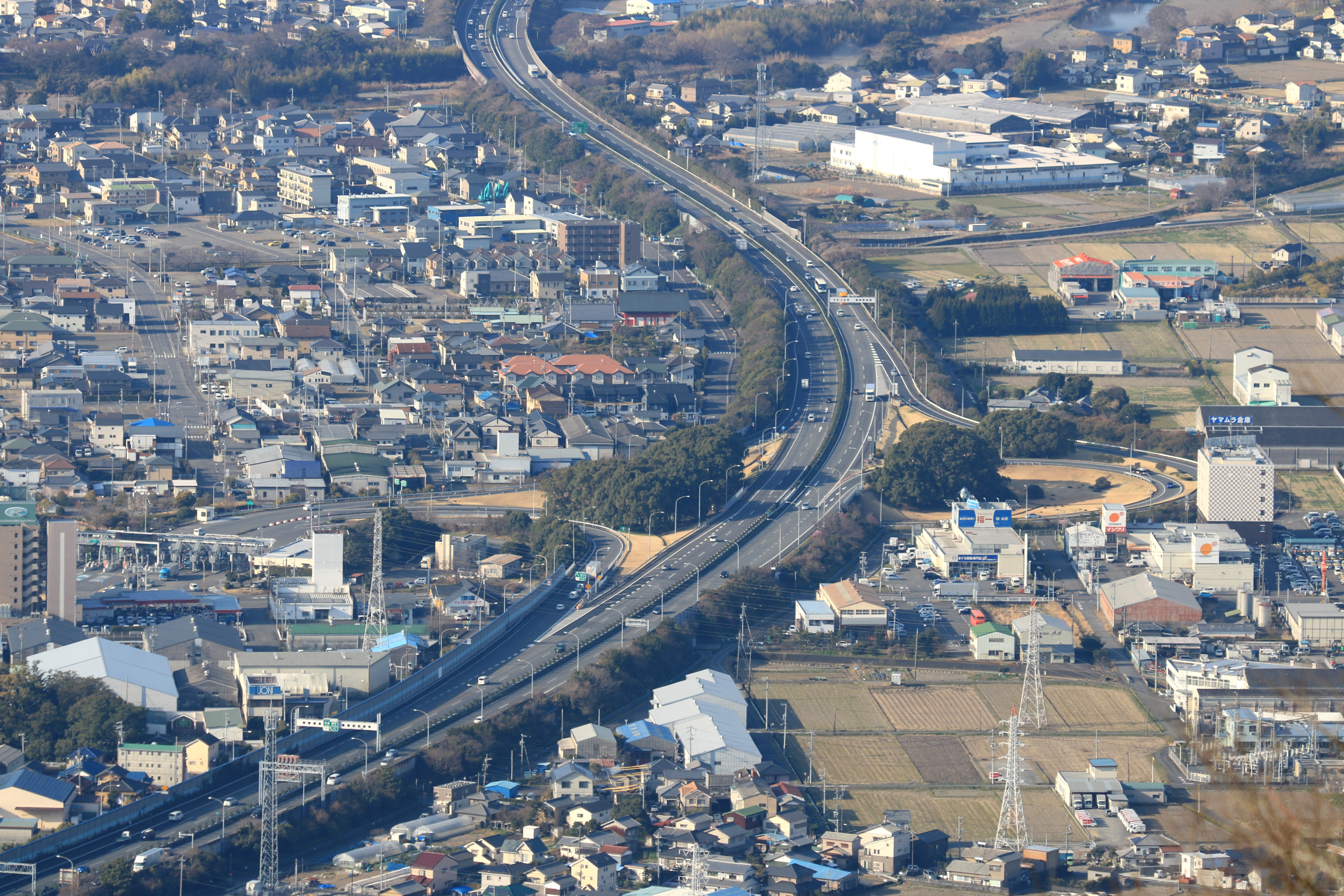 Yaizu Interchange of Tōmei Expressway seen from Mount Takakusa in Yaizu, Shizuoka prefecture, Japan.